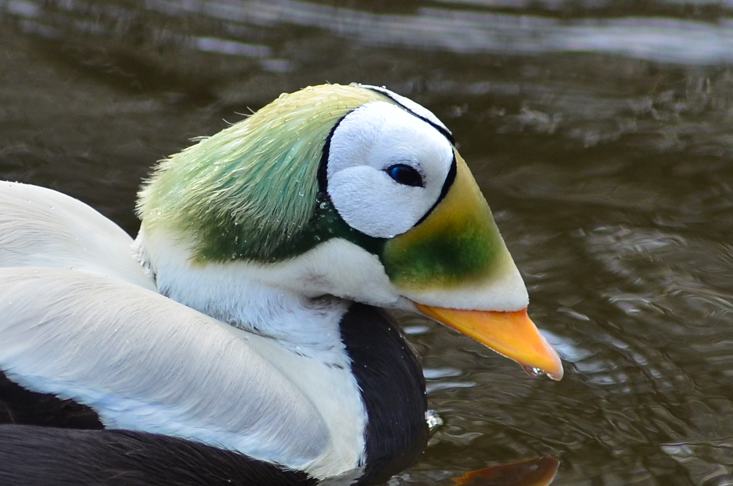 The conspicuous head of a Spectacled Eider (Somateria fischeri) (male) at Weltvogelpark Walsrode (Walsrode Bird Park, Germany)